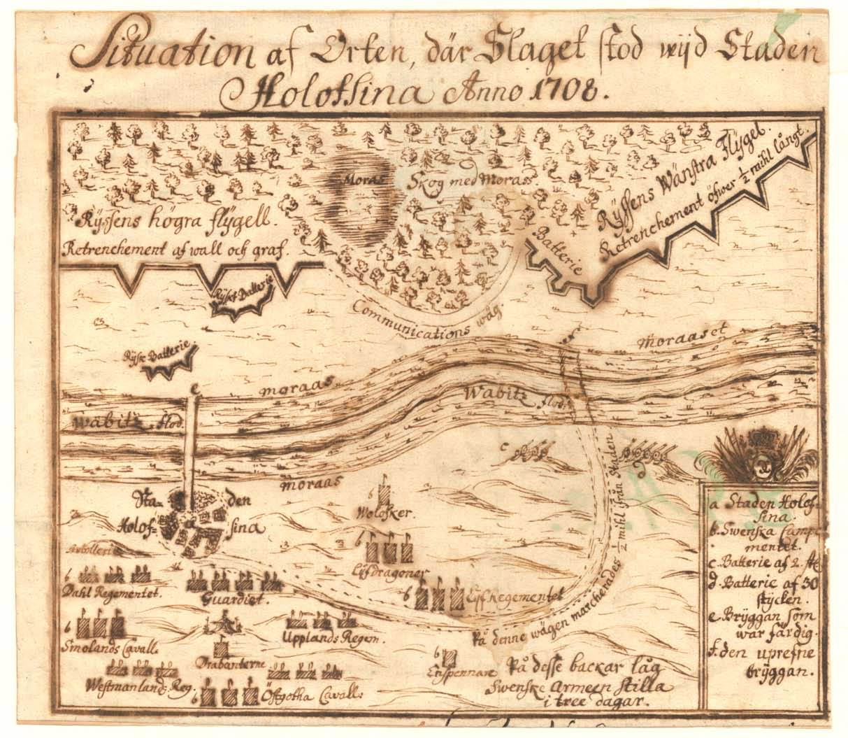 Picture of the battle of Holowczyn from 1708.